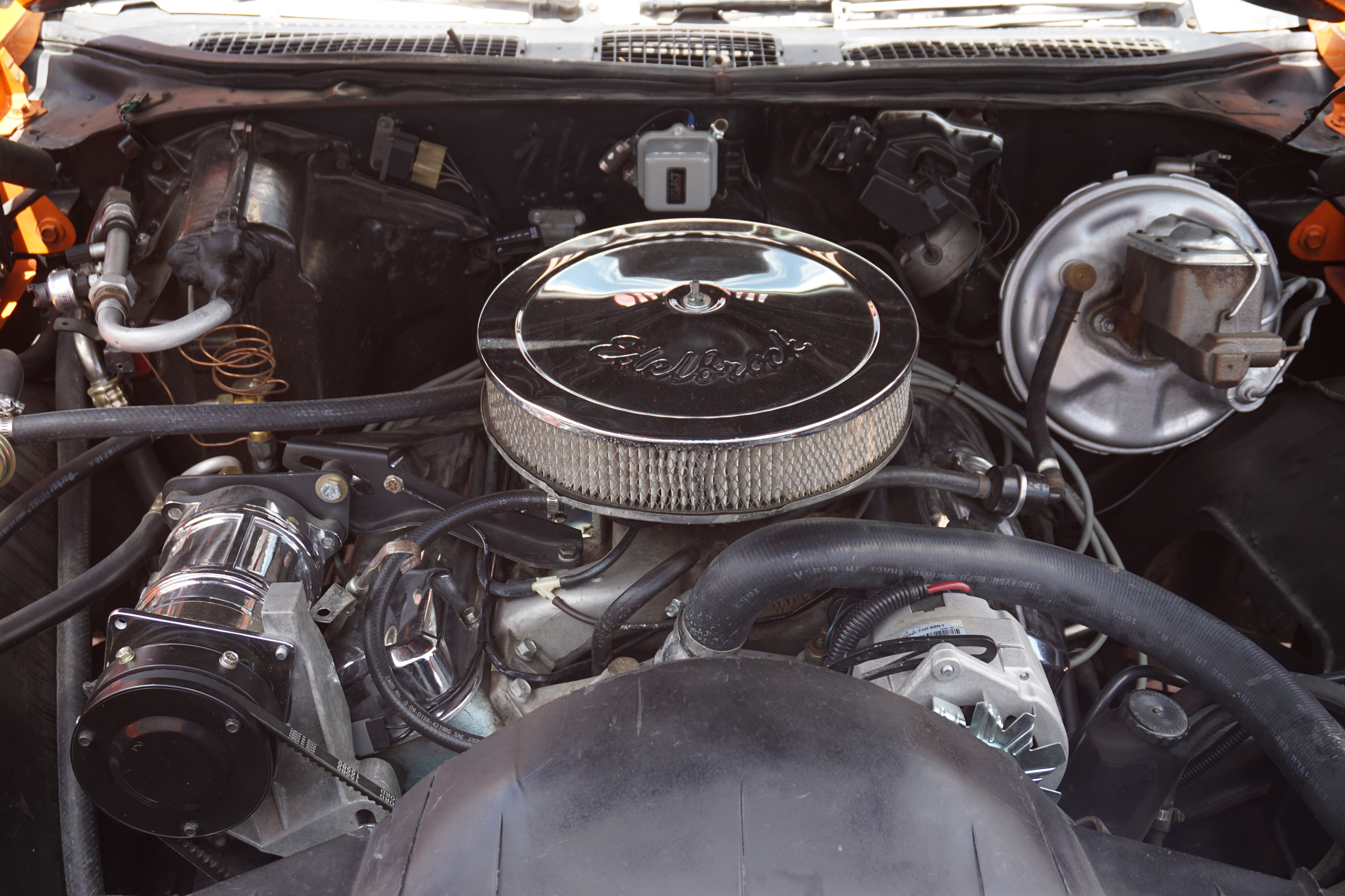 A 1970 Pontiac GTO engine at the Draggin' Main Car Show & Cruise in Durant, Oklahoma (United States).